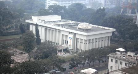 Osmani memorial hall